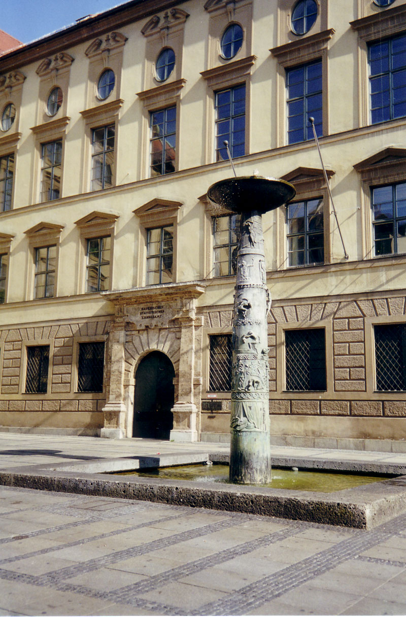 Bronze-fountain in the centre of Munich in front of the Alte Akademie (aka Jesuitenkolleg)